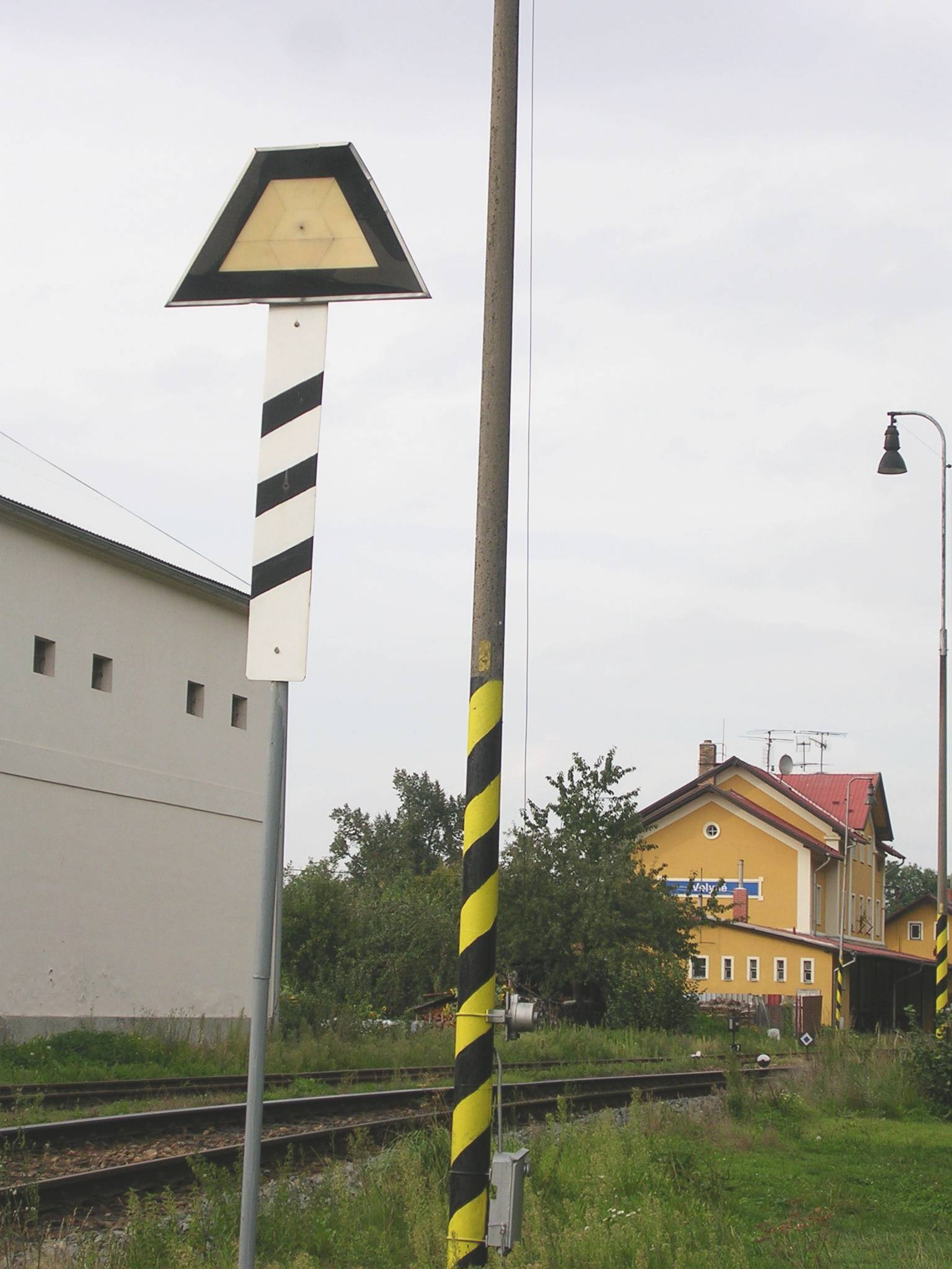 Railway station Volyně, South Bohemian Region, Czech Republic.